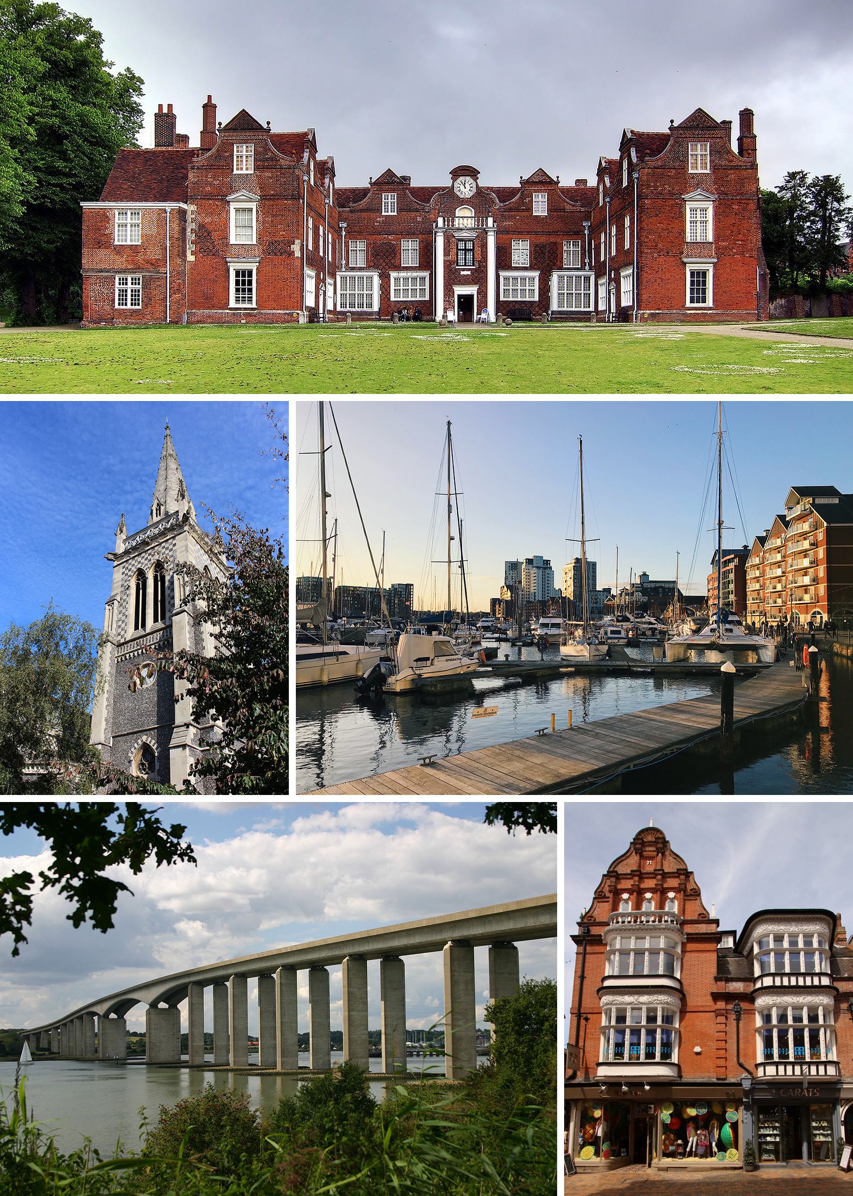 A montage of Ipswich, Suffolk